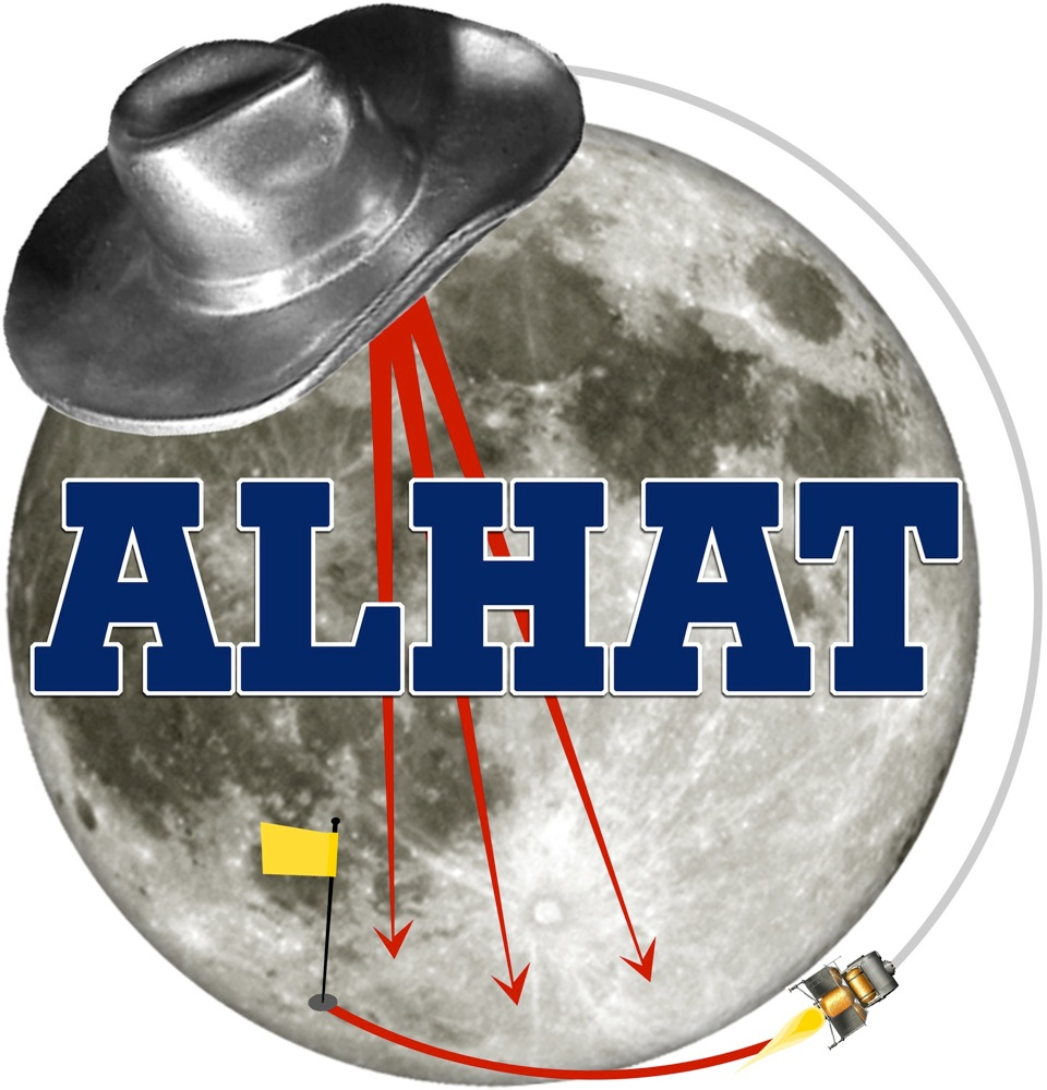 High resolution image of the Autonomous Landing and Hazard Avoidance Technologies Project logo